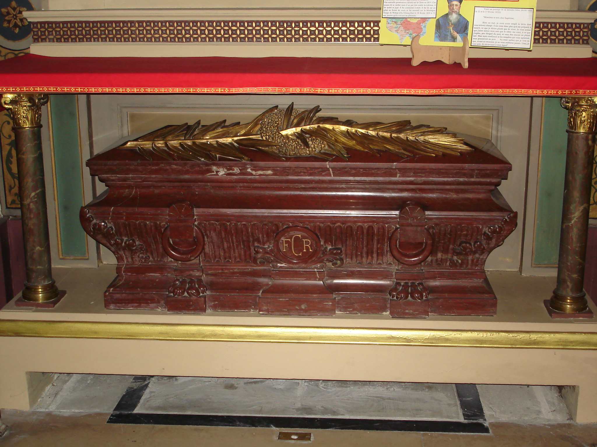 Tomb of Saint François-Régis Clet, Lazarist priest killed in China in 1820. Tomb located in the Chapelle Saint Vincent de Paul in Paris